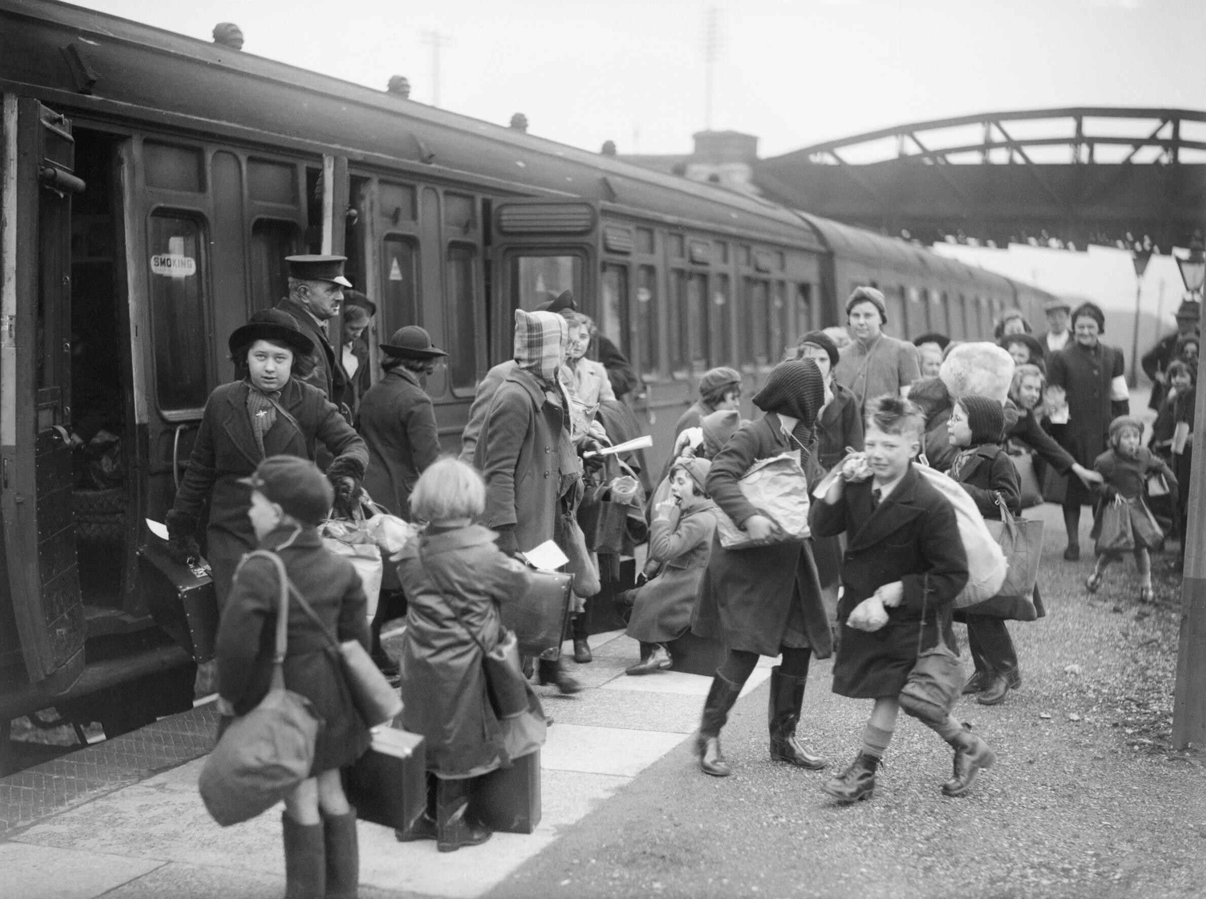 A group of children arrive at Brent station near Kingsbridge, Devon, after being evacuated from Bristol in 1940. A group of children arrive on a platform at Brent station, near Kingsbridge, Devon after being evacuated from Bristol in 1940. The train on which they have travelled can be clearly seen alongside. The children are carrying bags, suitcases, or bundles of clothing and also have their gas masks with them. The guard from the train and many of the female volunteers that helped to escort these children to Devon can also be seen.